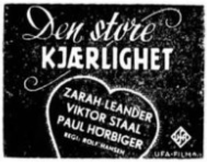 Newspaper add for the film Die Grosse Liebe